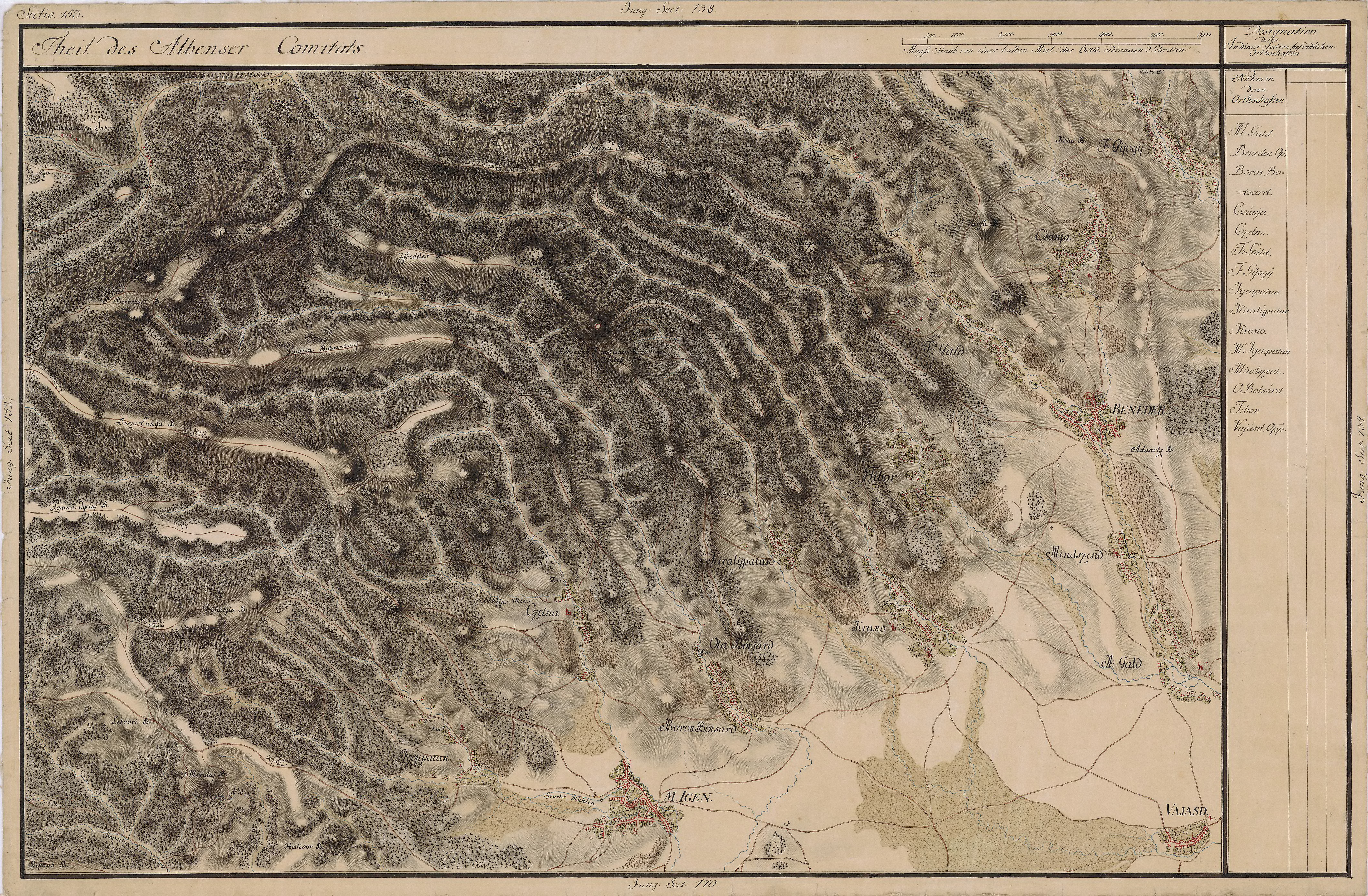 Grand Duchy of Transylvania, 1769-1773. Josephinische Landaufnahme pg.153